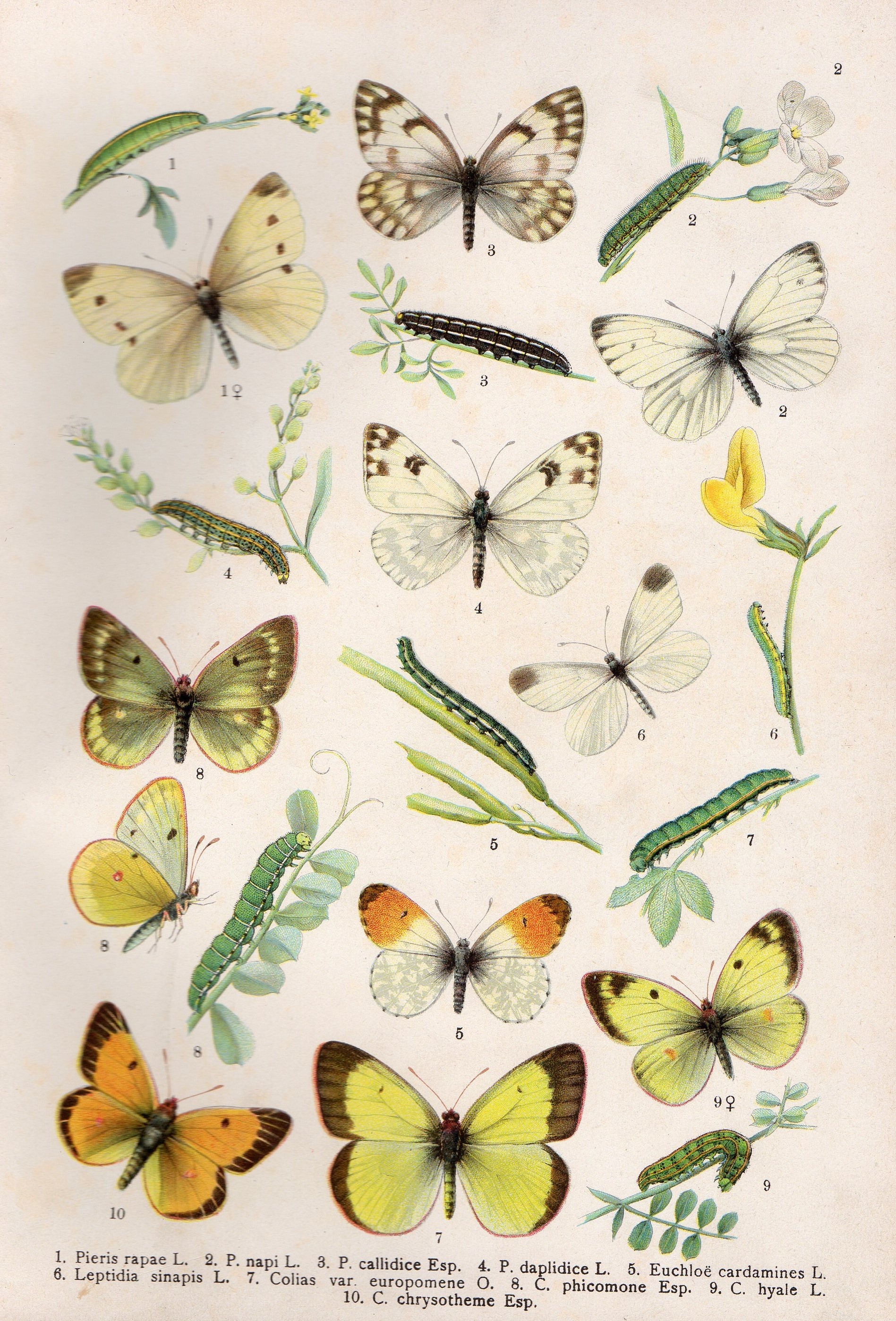 Table of Lepidoptera. From Joukl (1862-1910): "Motýlové a housenky střední Evropy" 1910.